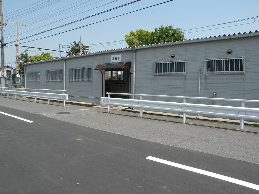 Nankai Railway Tsumori Station